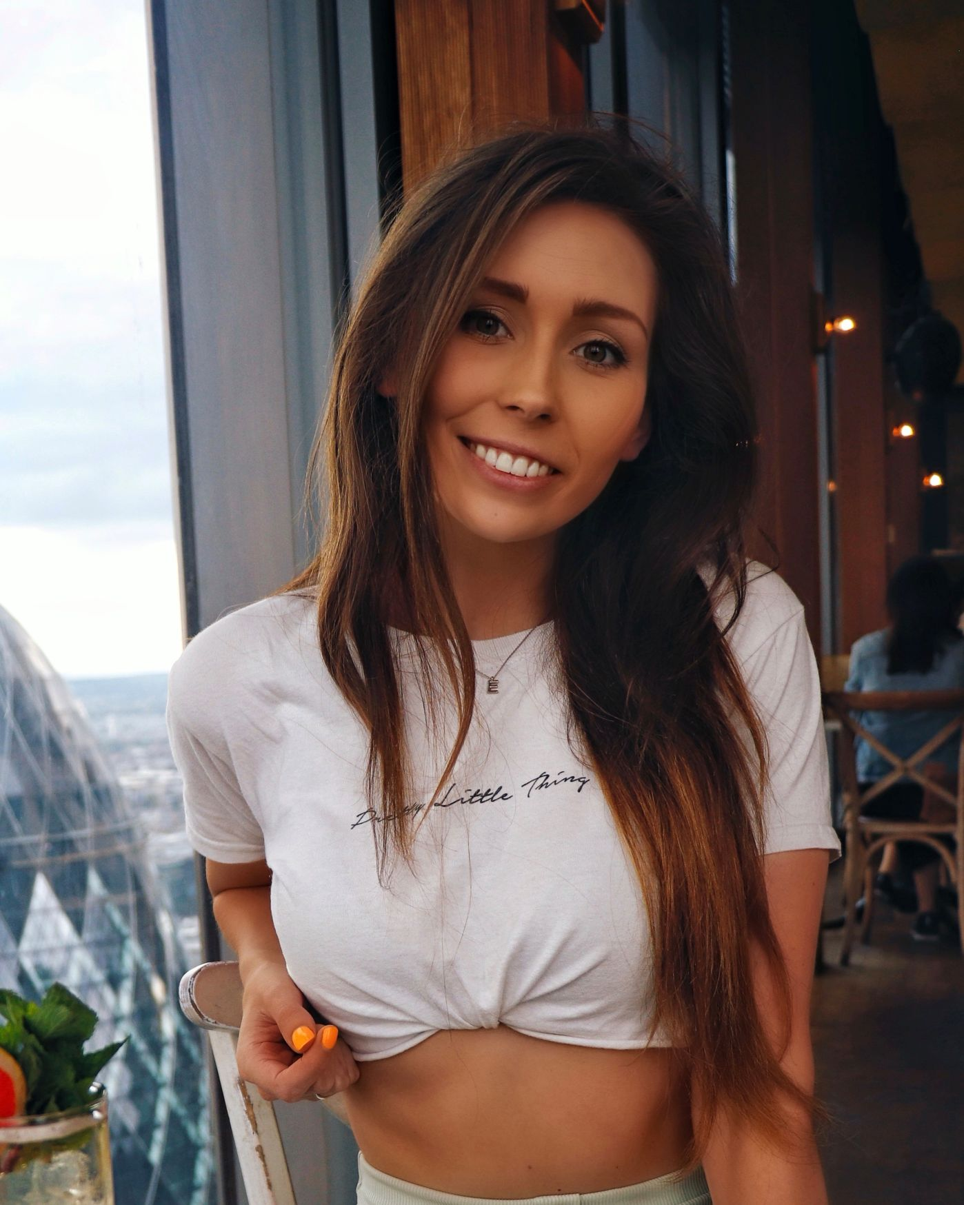 Eloise Head is a social media personality and business woman from London, England.